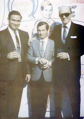 Bill Shoemaker stands between his longtime agent, Harry Silbert, left, and Camilo Marin. Chicago, 1967